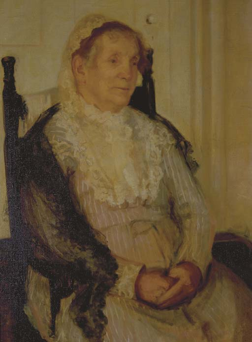 Mary A. Hallock Foote American, 1847-1938 Old Lady (Portrait) oil, 36 x 25.